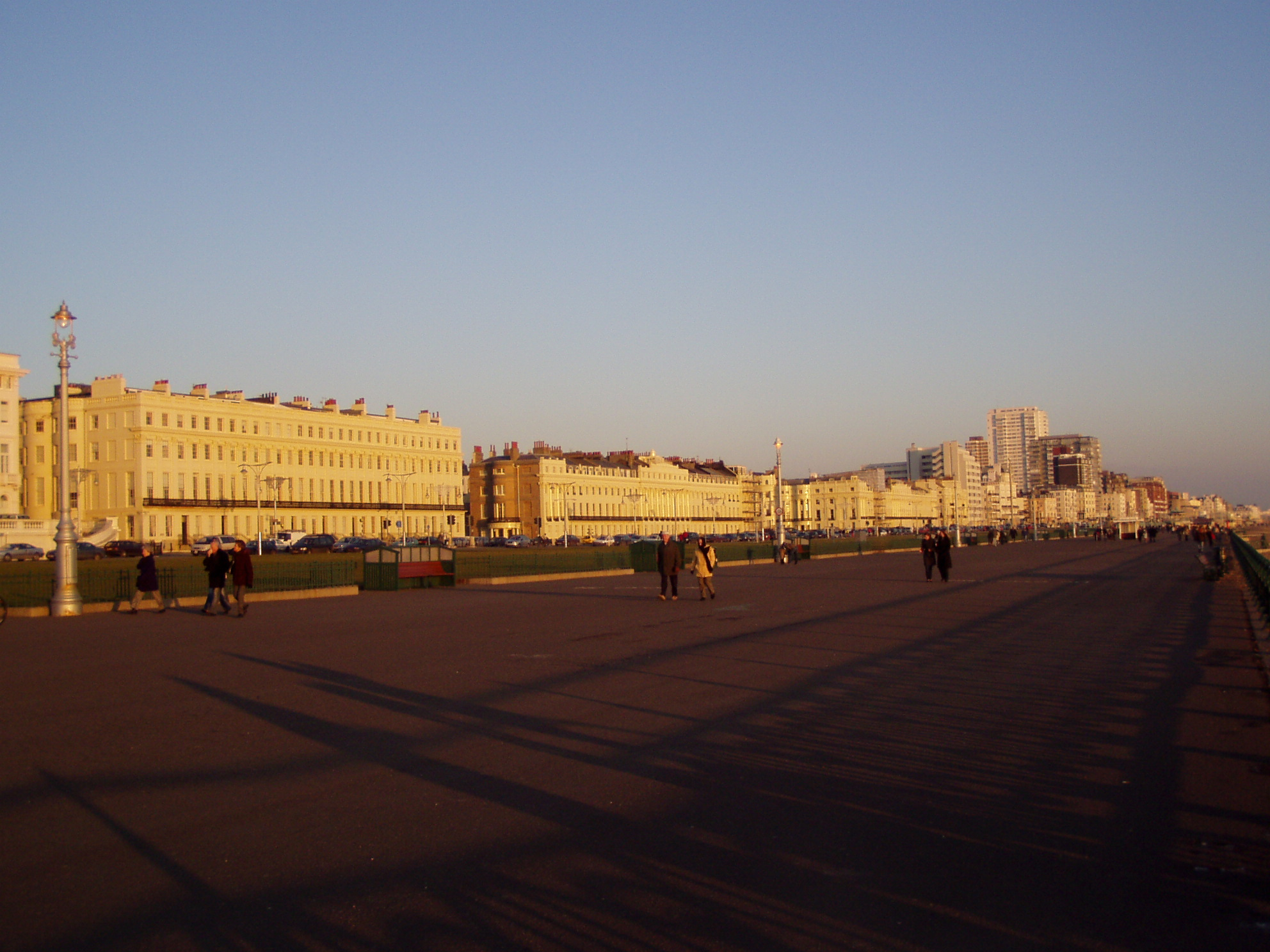 Brighton Seafront, right in front of Adelaide Crescent (Hove), looking east.